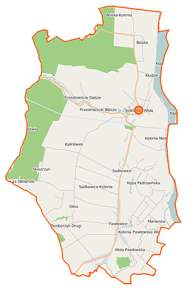 Map of Gmina Solec nad Wisłą, Poland This map of Solec nad Wisłą (gmina) was created from OpenStreetMap project data, collected by the community. This map may be incomplete, and may contain errors. Don't rely solely on it for navigation. Border coordinates51.197021.6410←↕→21.811051.0328